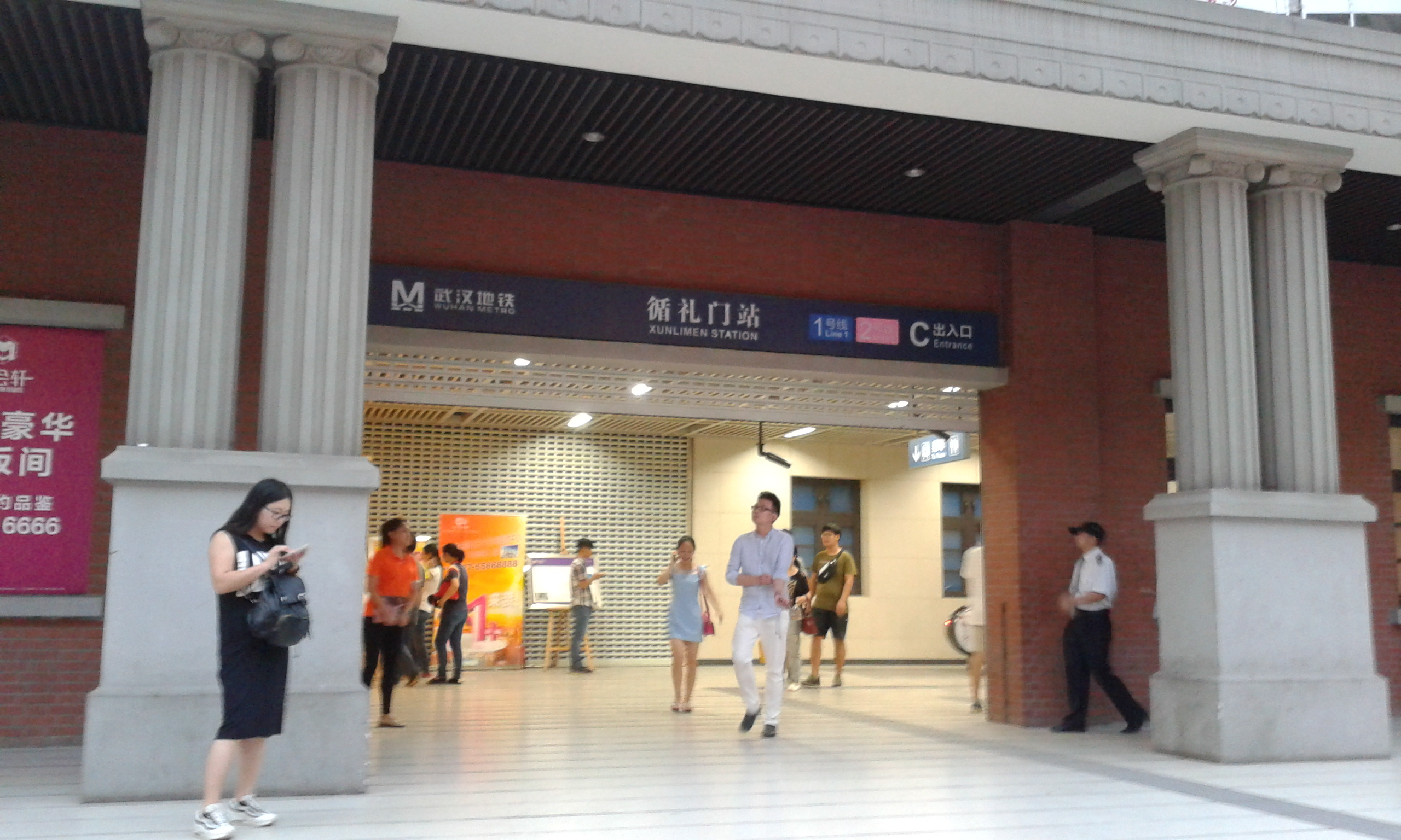 Entrance C of Xunlimen Station, Wuhan Metro Line2